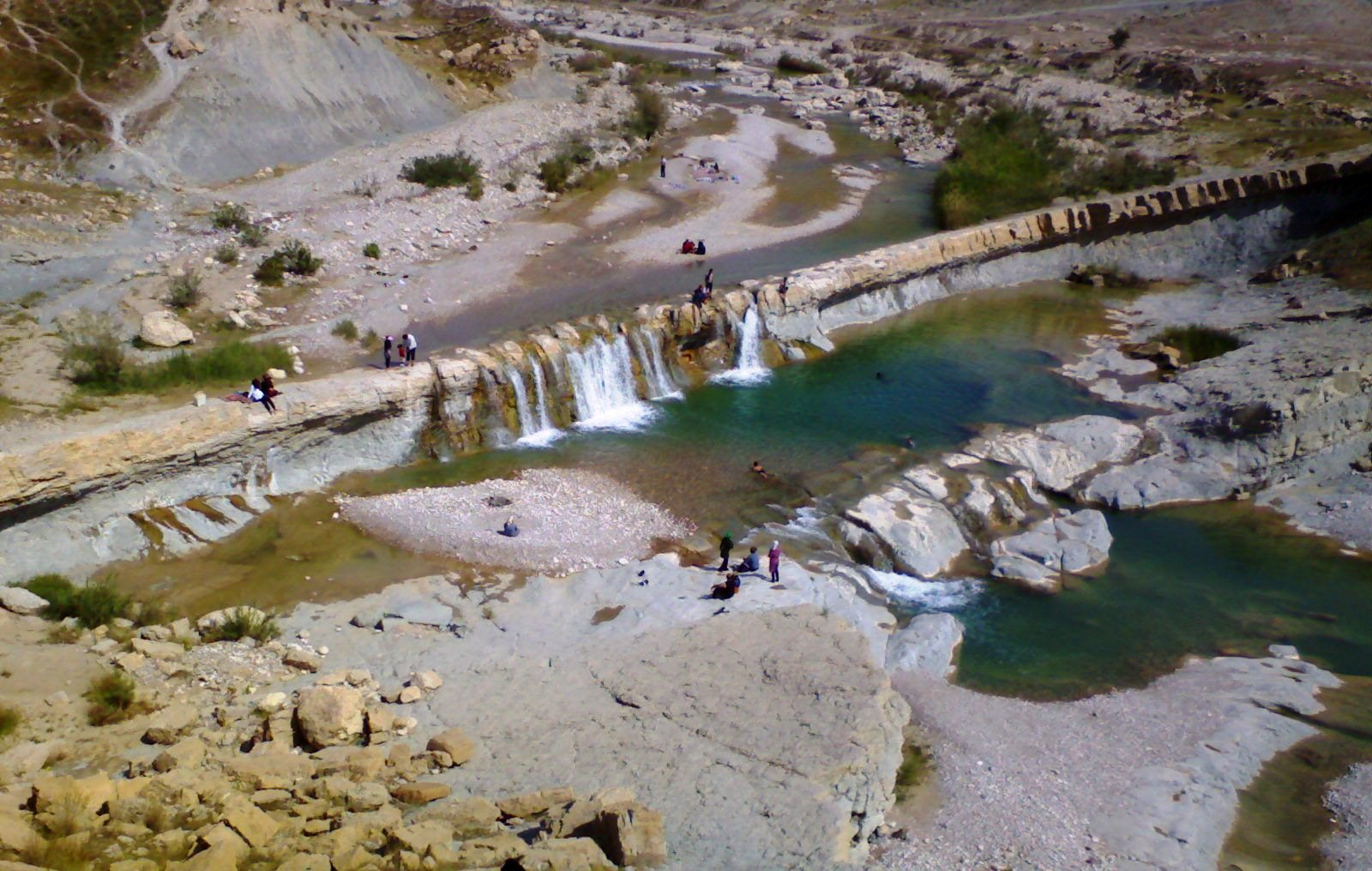 keyvanfall